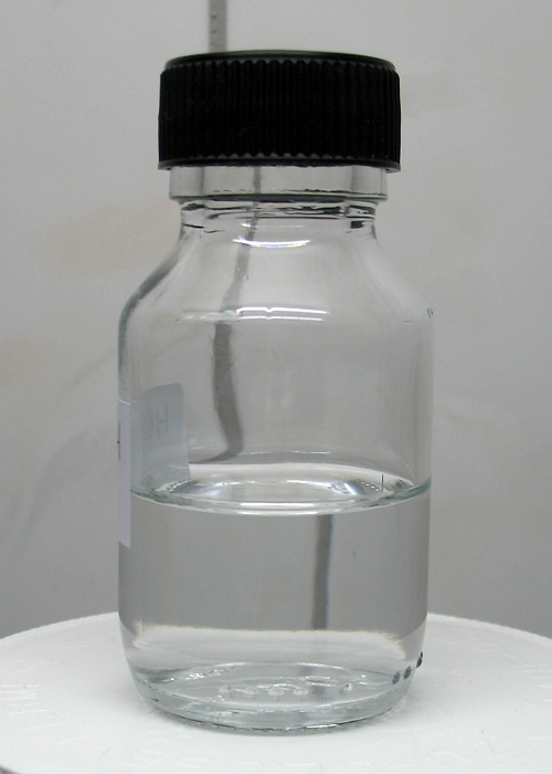 Formic acid, 85% lab reagent grade. Appr. 25 ml of acid.